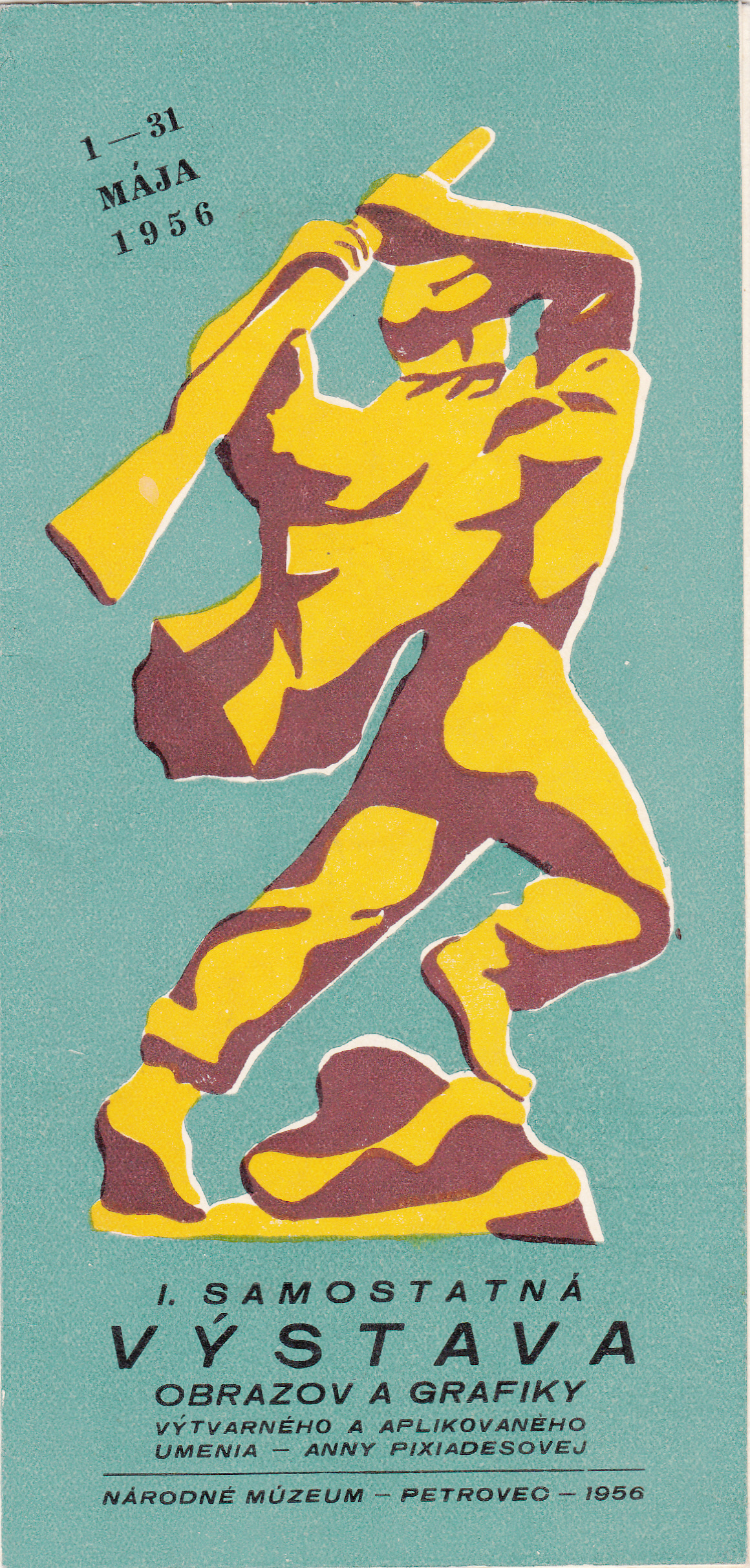 Catalog of the first solo exhibition of paintings and graphics by Vojvodinian Slovak artist Ana Piksiades at the National Museum in Bački Petrovac (Vojvodina, Serbia) (1956). Inventory number 2201. Srpski (latinica): Katalog prve samostalne izložbe slika i grafika slovačke umetnice Ane Piksiades u Narodnom muzeju u Bačkom Petrovcu (1956). Inventarski broj 2201.